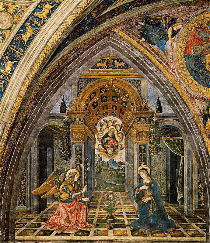 The Annunciation Fresco Borgia Apartments, Hall of the Mysteries of the Faith